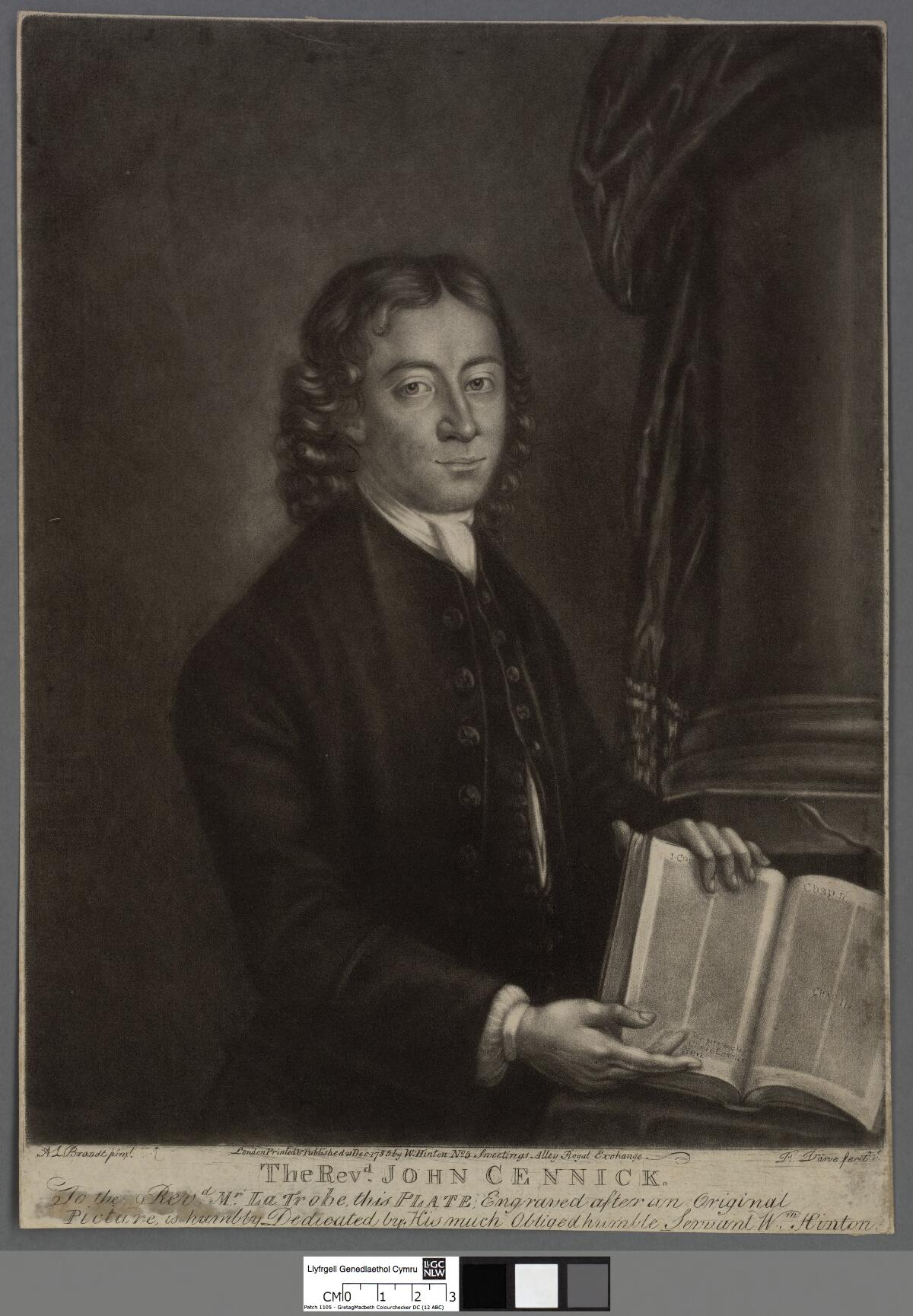 A portrait from the Welsh Portrait Collection at the National Library of Wales. Depicted person: John Cennick – British evanglist and hymnwriter